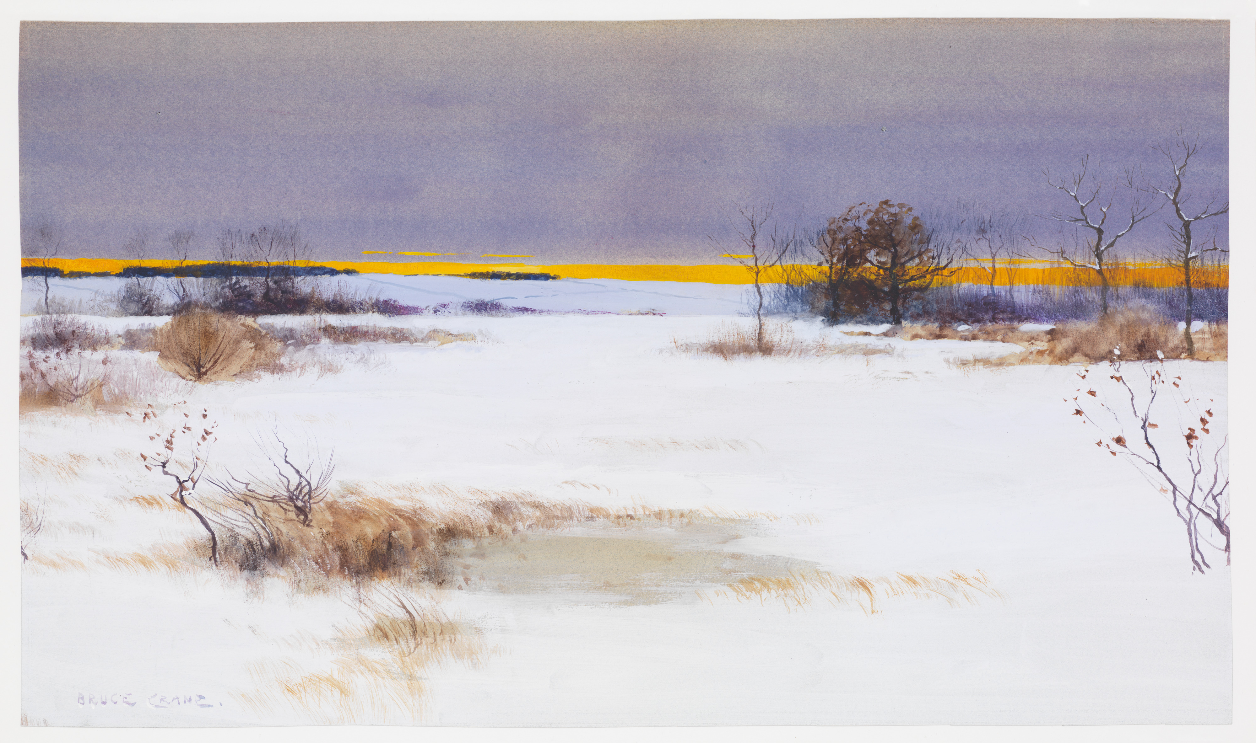 Watercolor; Drawings